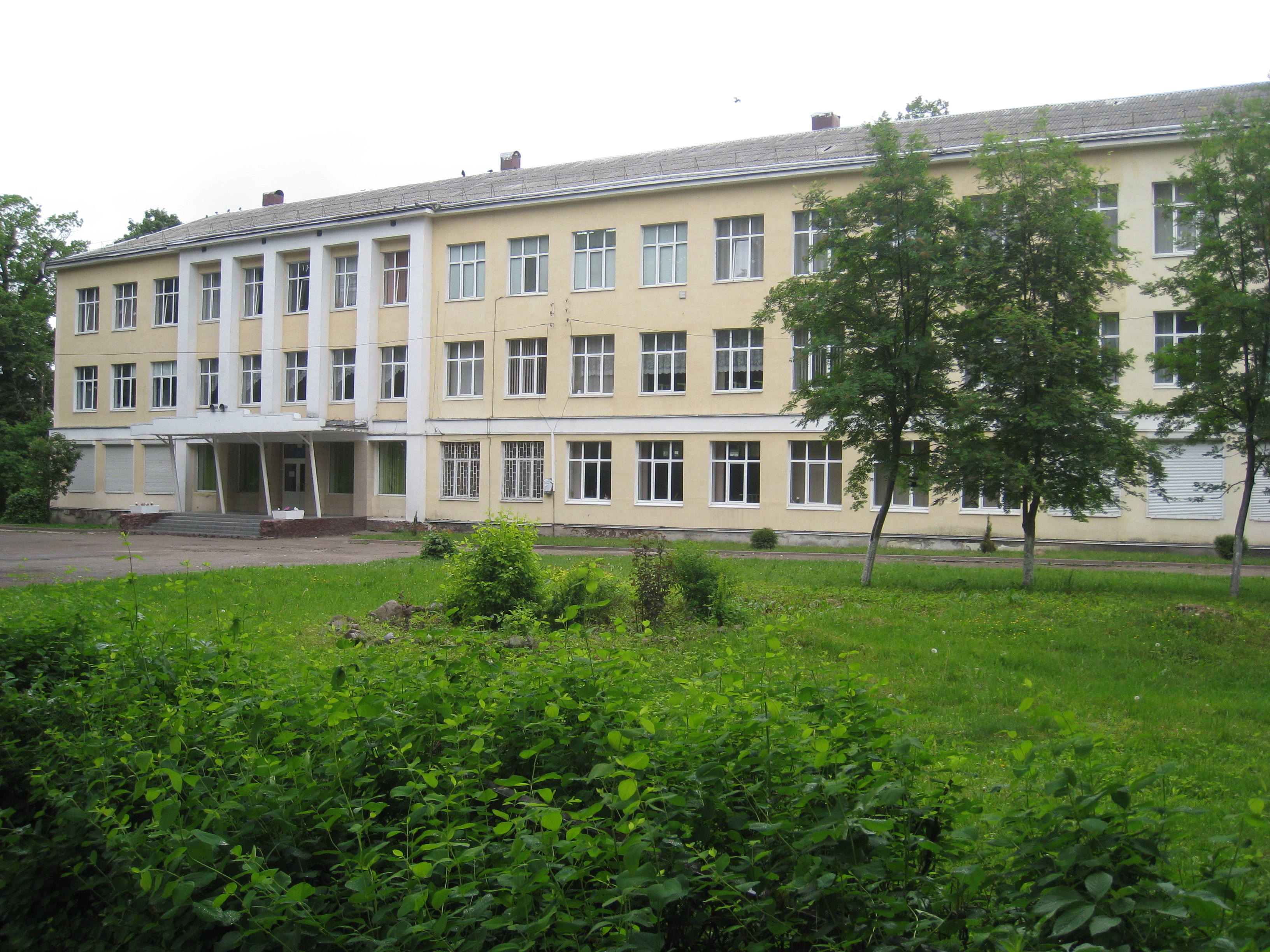 school